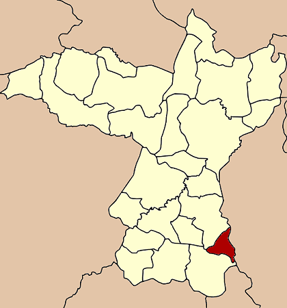 Map of Khon Kaen Province, Thailand, highlighting the district Pueai Noi (อำเภอเปือยน้อย)